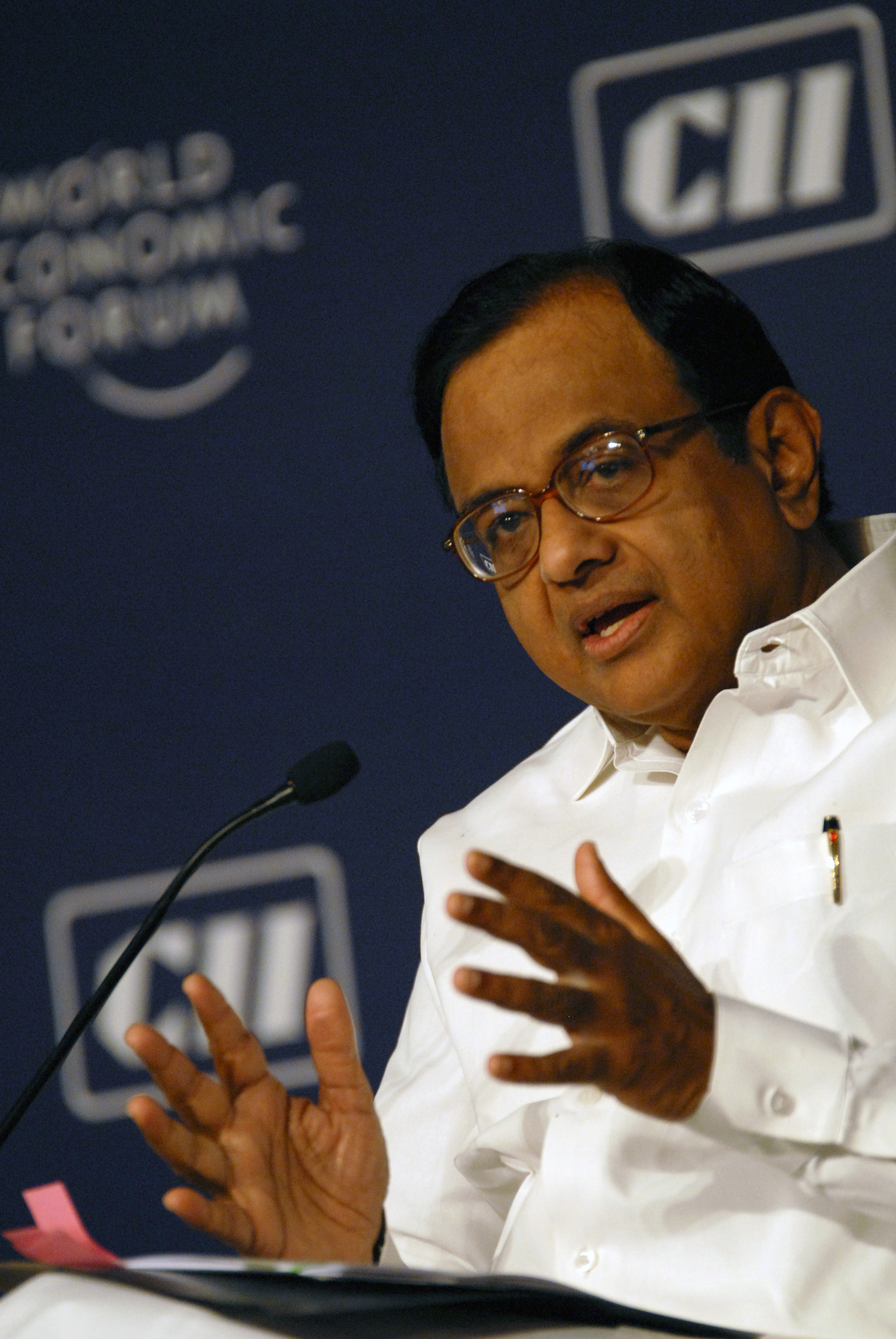 India's Minister of Finance Palaniappan Chidambaram is the special guest at a plenary session titled Risks to India's Economy in a Post-Crisis World held at the World Economic Forum's India Economic Summit 2008 in New Delhi, 16-18 November 2008.